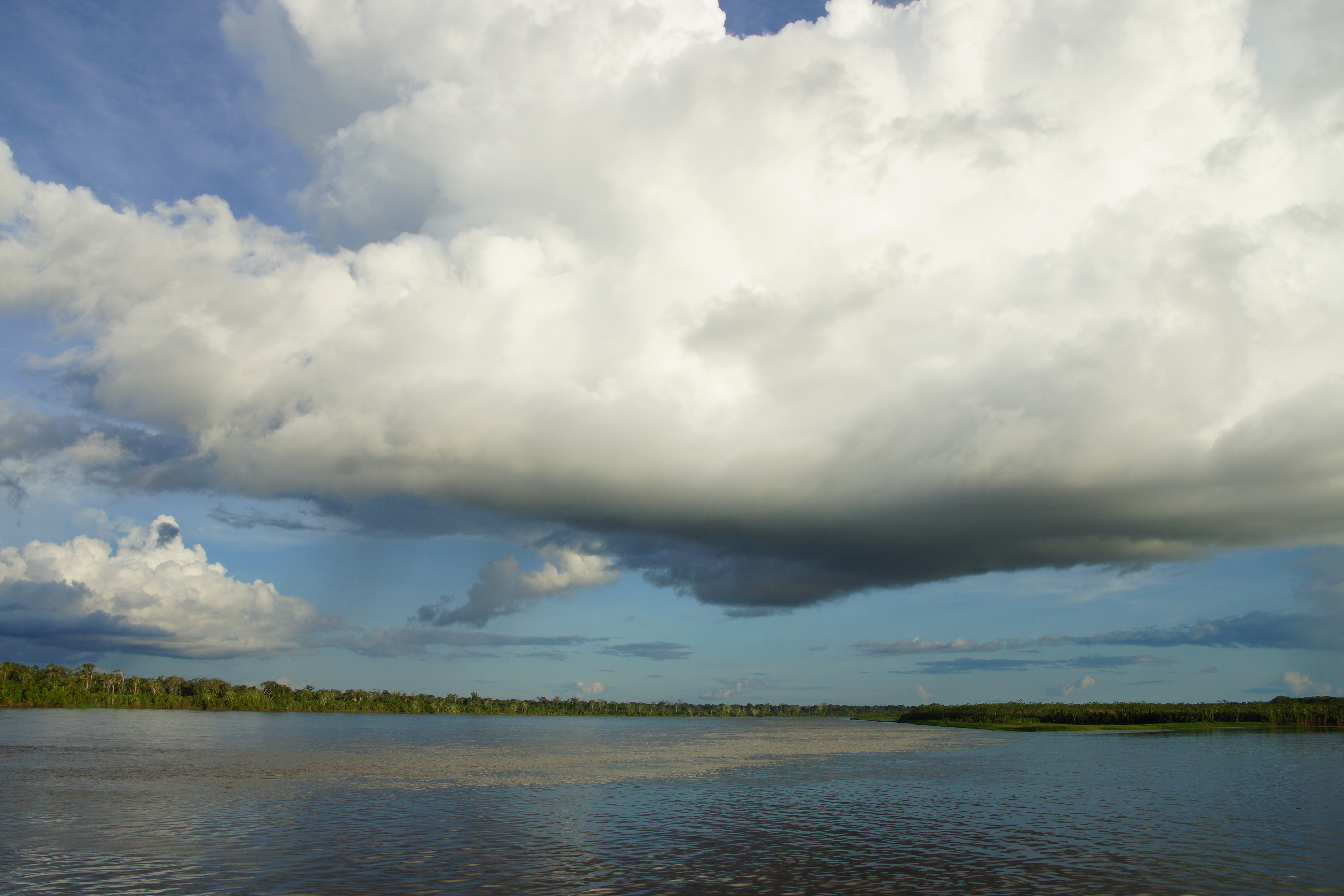 The Marañón River between Nauta and San José de Saramura, Loreto, Peru